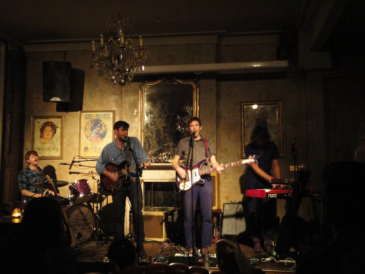 This is my personal image taken at a gig